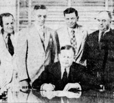 Governor Sholtz signing a proclamation declaring May 11-16 life insurance week in Florida